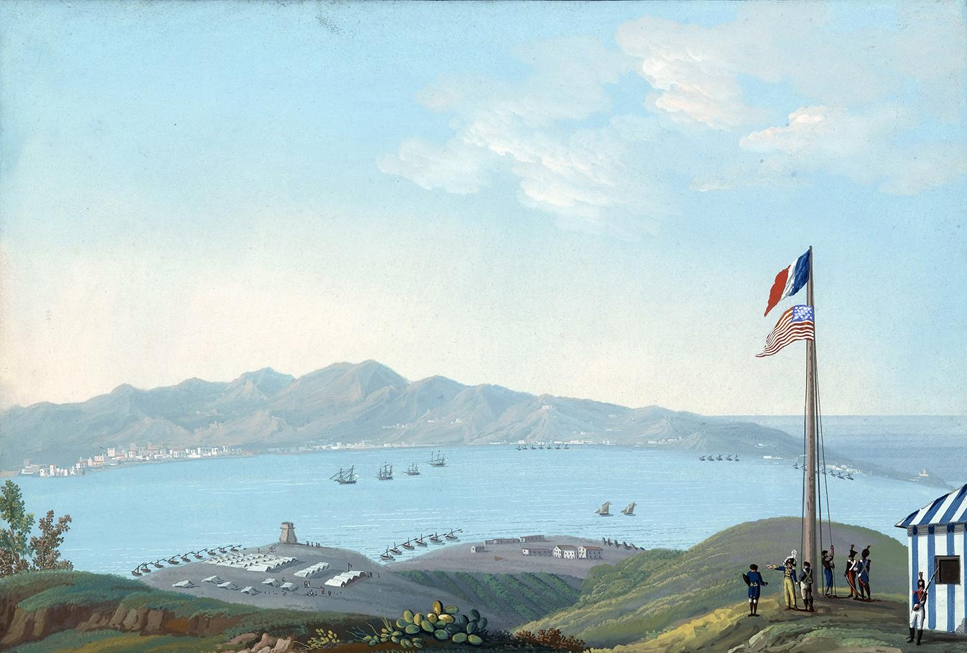 Anonymous artist, "The Last Flag Raising Ceremony: Cession of New Orleans (1803)"